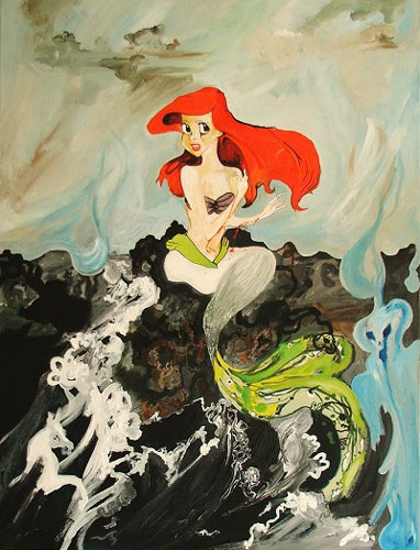 Abby Jackson. Death on the Rocks. Retrieved from , 23 July 2008. License from Death on the Rocks by Abby Jackson Copyright © Abby Jackson, . This file is released under GFDL and CC-BY-SA-3.0. Please link to the URL stated. The moral right of the author is asserted. Apply for other permission or higher file size